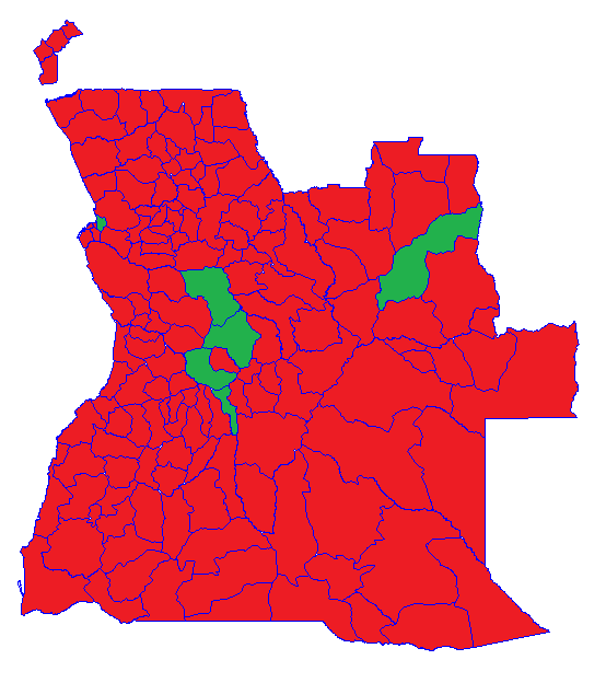 Winner in each municipality of the Angolan General Election, 2017